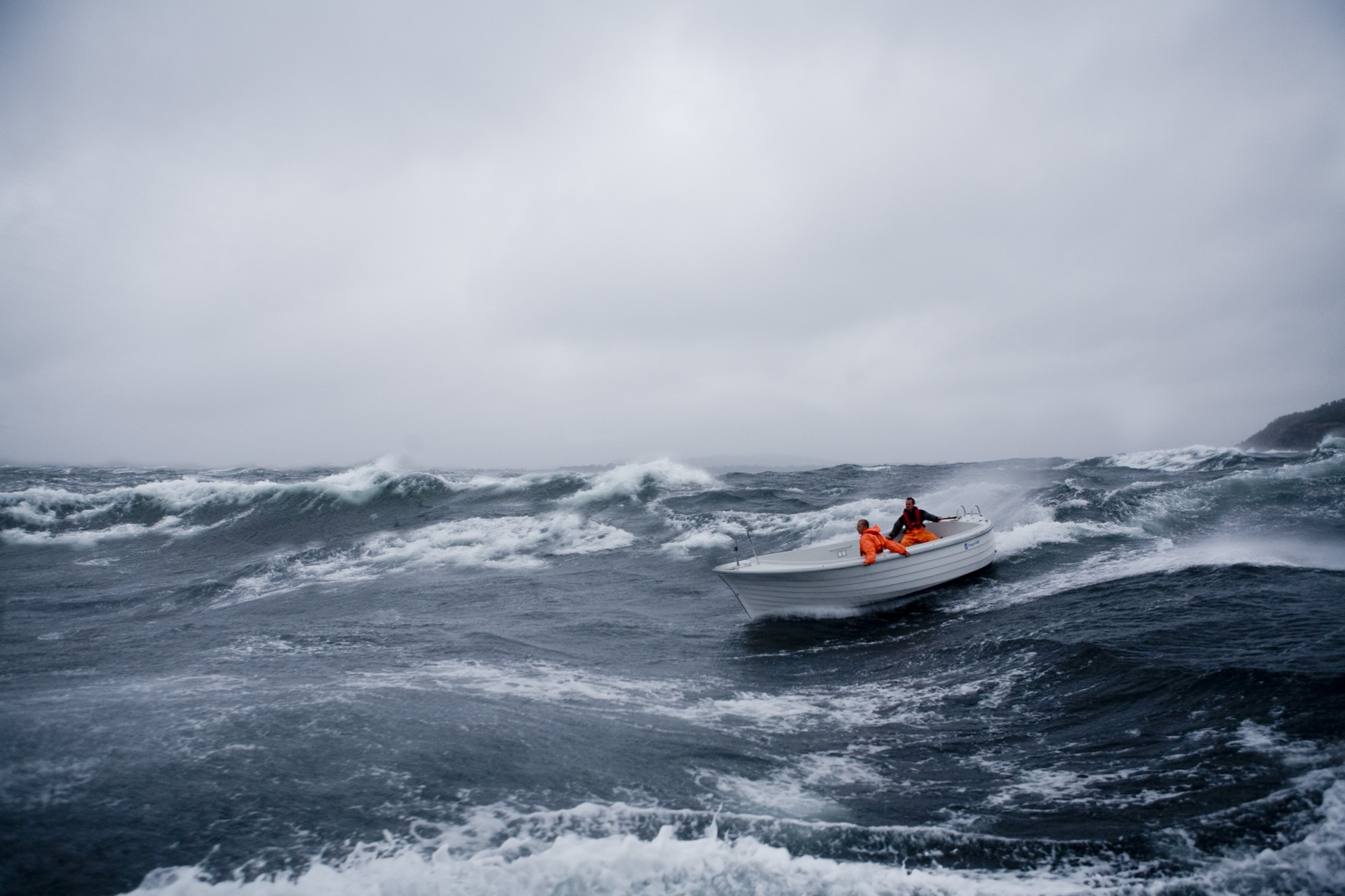 Norwegian Skager 660